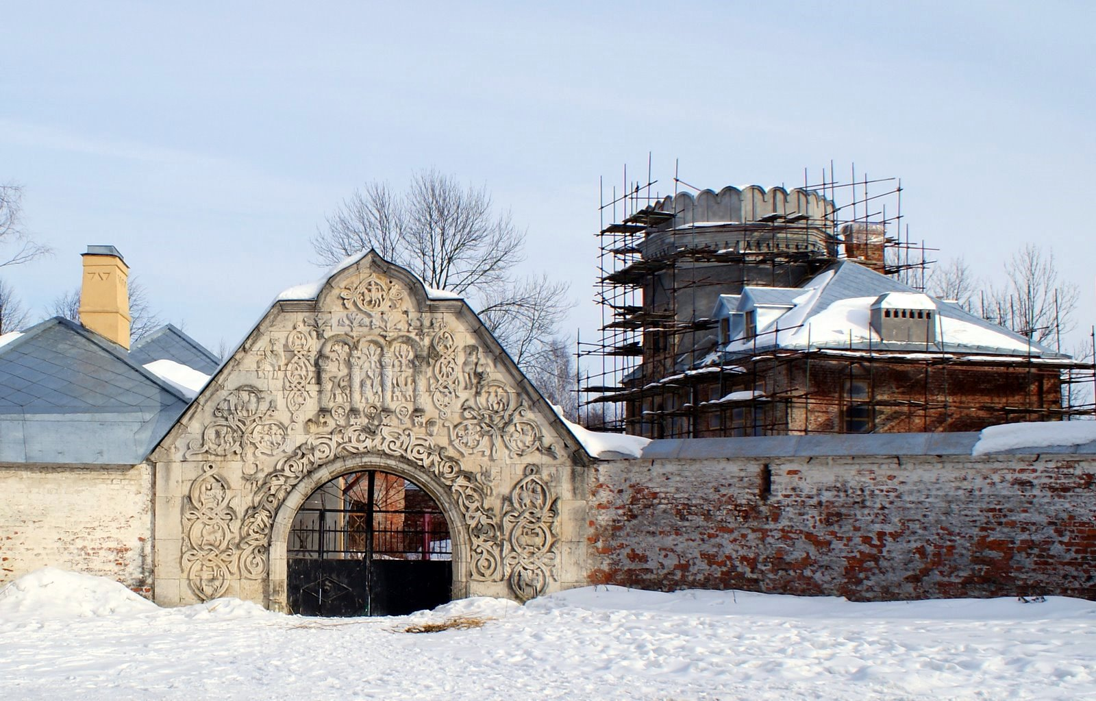 Feodorovsky gorodok in Tsarskoye Selo. The Whitestone gates and Pink tower